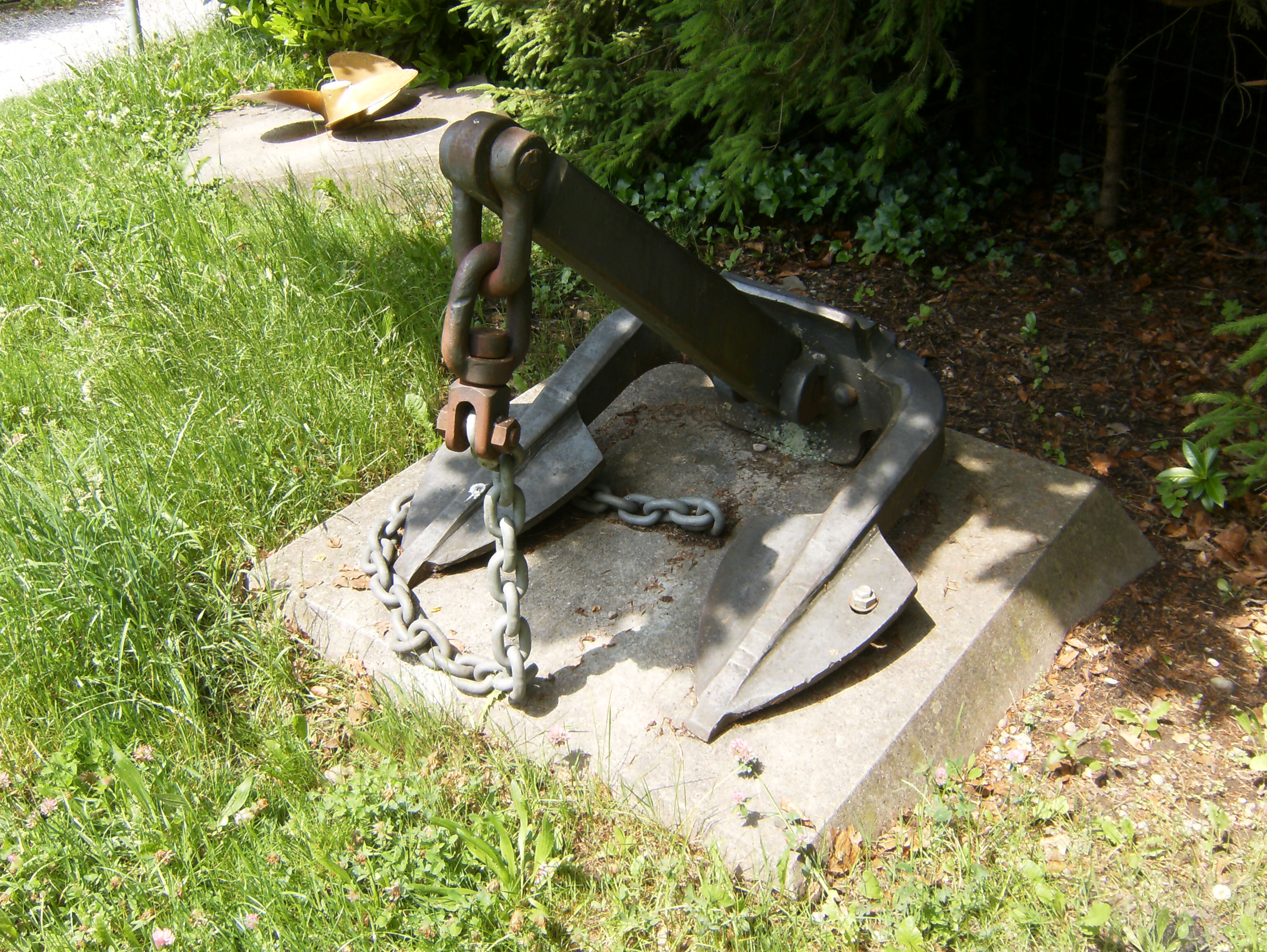 Anchor, Horgen ZH